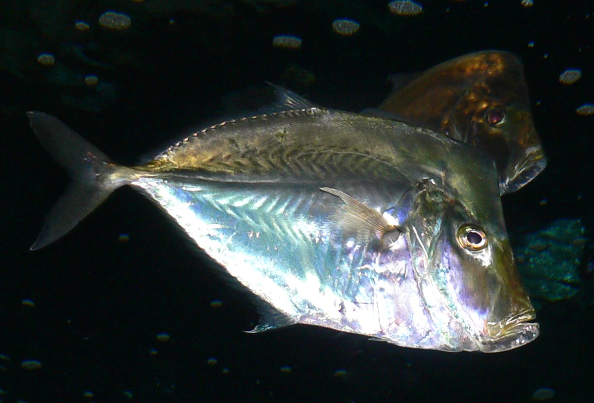 Photo of Selene vomer(lookdown) at the Birch Aquarium in San Diego